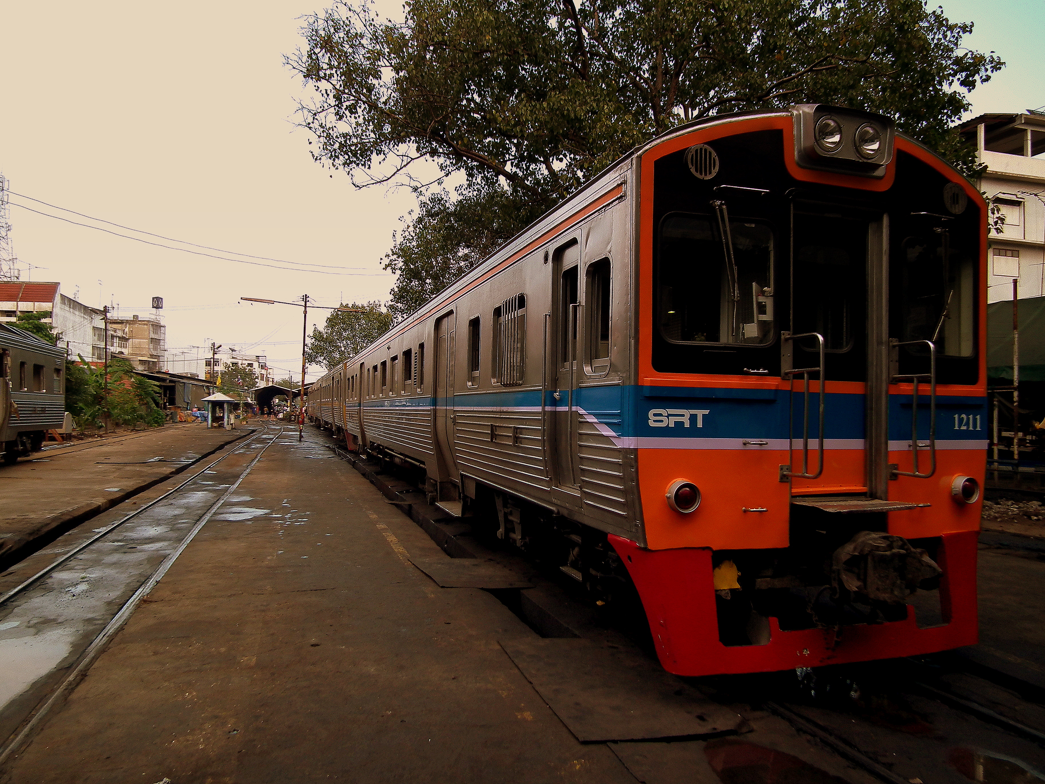 BANLAEM STATION THAILAND JAN 2012